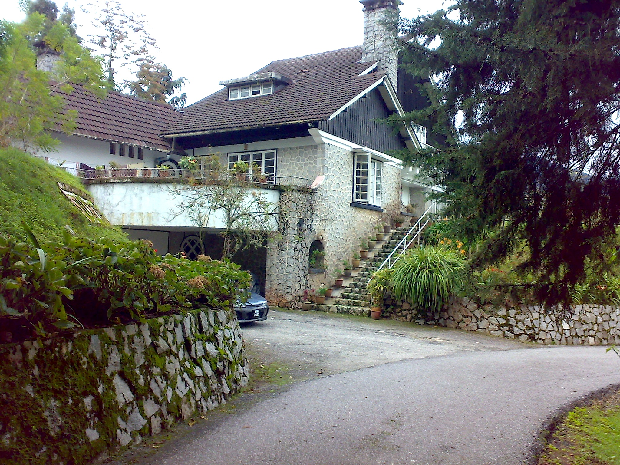 Sunlight bungalow is located at No. A46, Jalan Kamunting, 39000, Tanah Rata, Cameron Highlands, Pahang, West Malaysia. Photo taken by User: Roysouza.